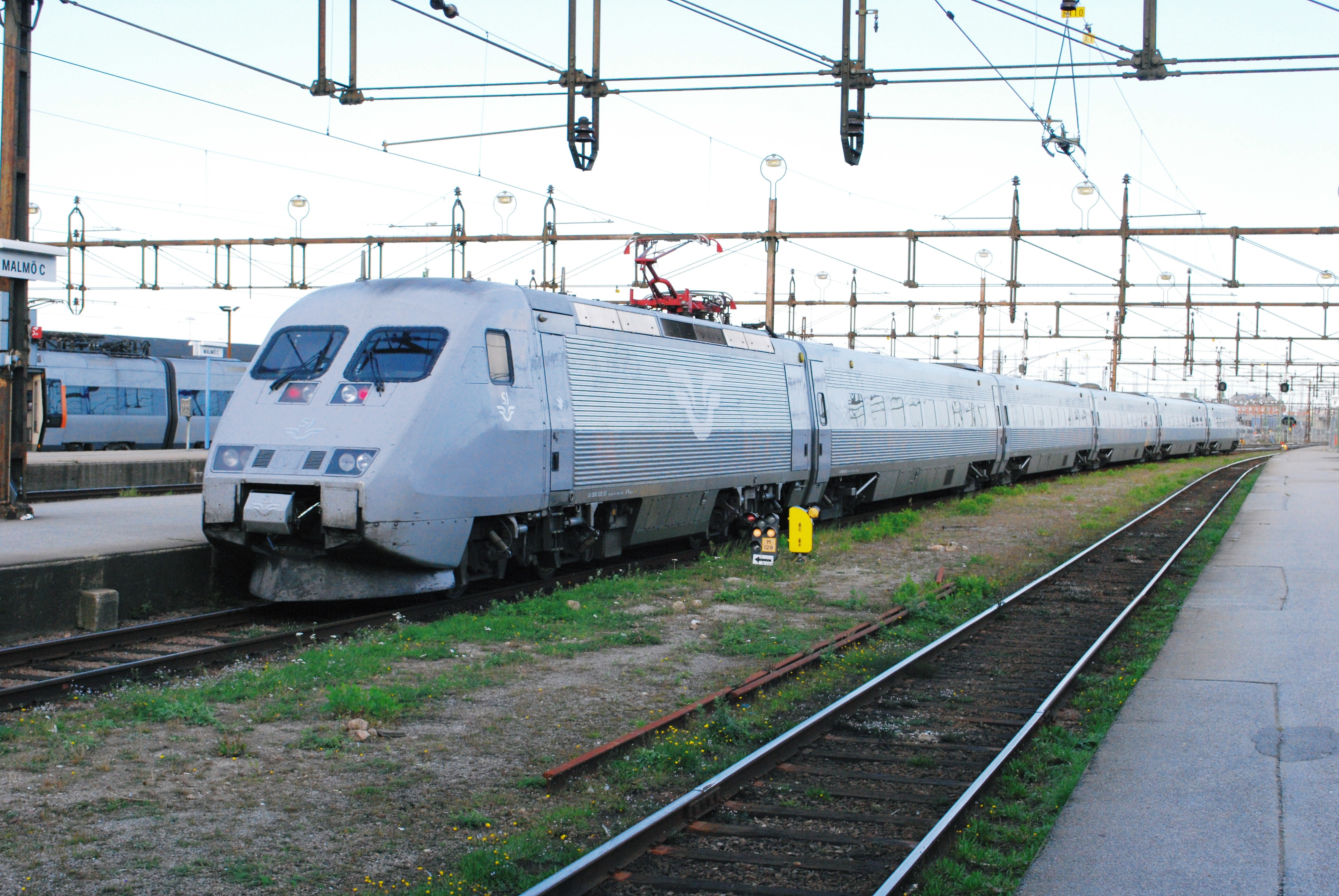 SJ Class X2K 25kV ac/15kV ac tilting 6-car High Speed Train with Adtranz 4,400 hp Bo-Bo loco leading, departing Malmo for Gothenburg, 10/09. The X2Ks were built for Gothenburg - Malmo - Kobenhavn 125 mph services via the Oresund link. One X2 set (15kV ac units for internal Danish services) holds the Swedish speed record at 148 mph. X2N & X2NK sets were built for Sweden - Norway and Denmark - Sweden - Norway services.